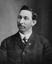 Portrait of Senator Patrick Joseph Sullivan of Wyoming